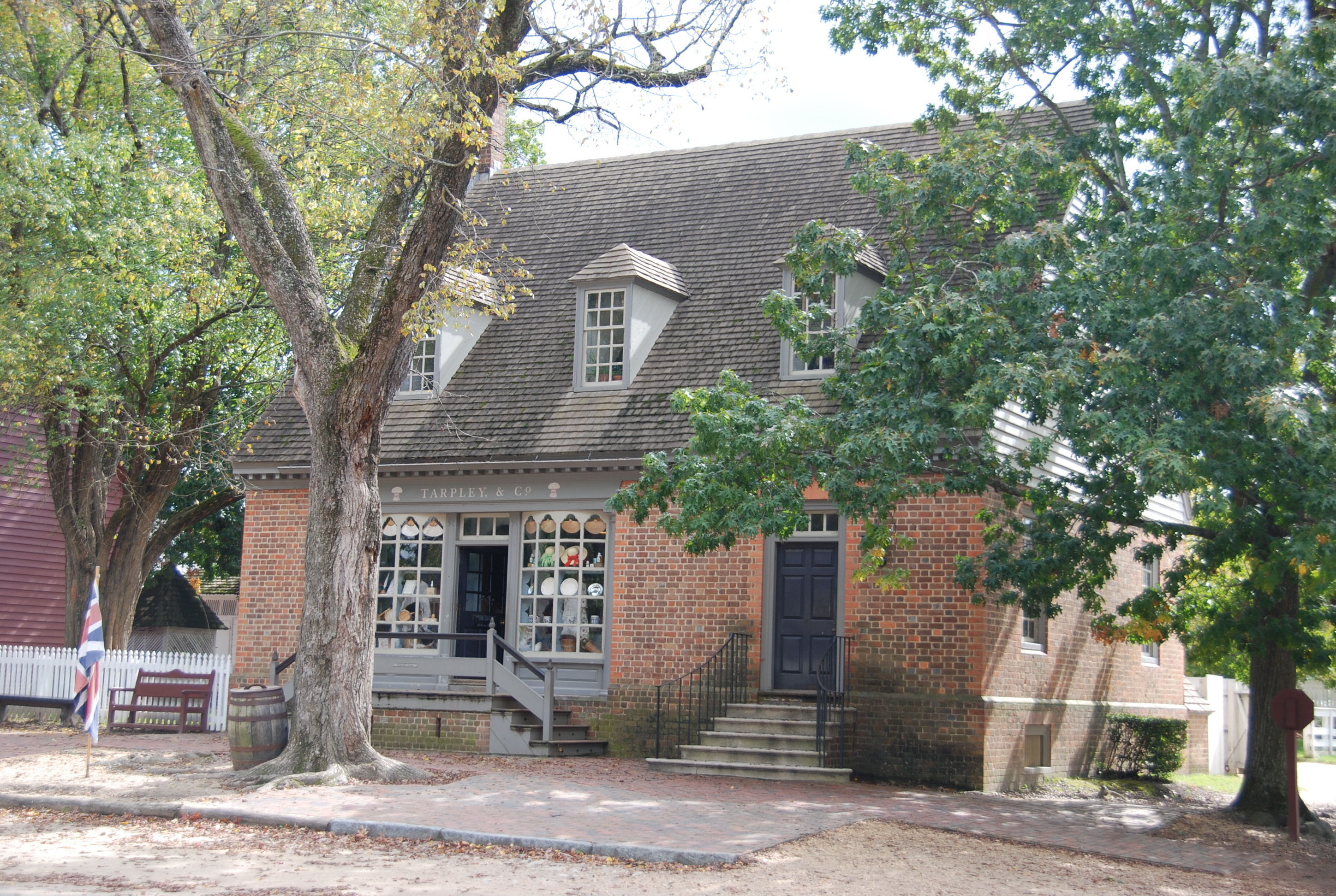 Tarpley Store at Colonial Williamsburg, Virginia. Taken October 14, 2011